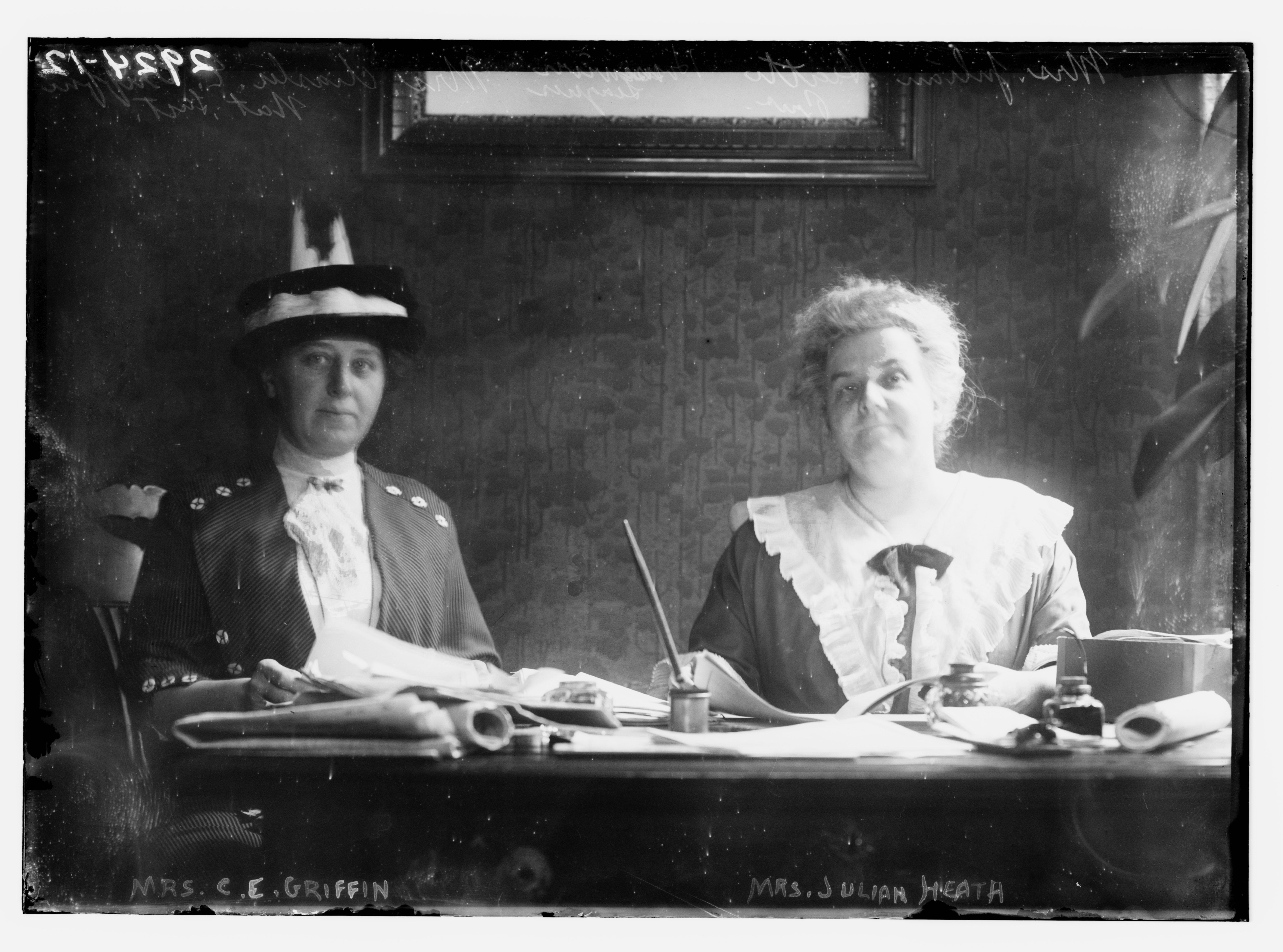 Title: Mrs. C.E. Griffin [and] Mrs. Julian Heath Abstract/medium: 1 negative : glass ; 5 x 7 in. or smaller.